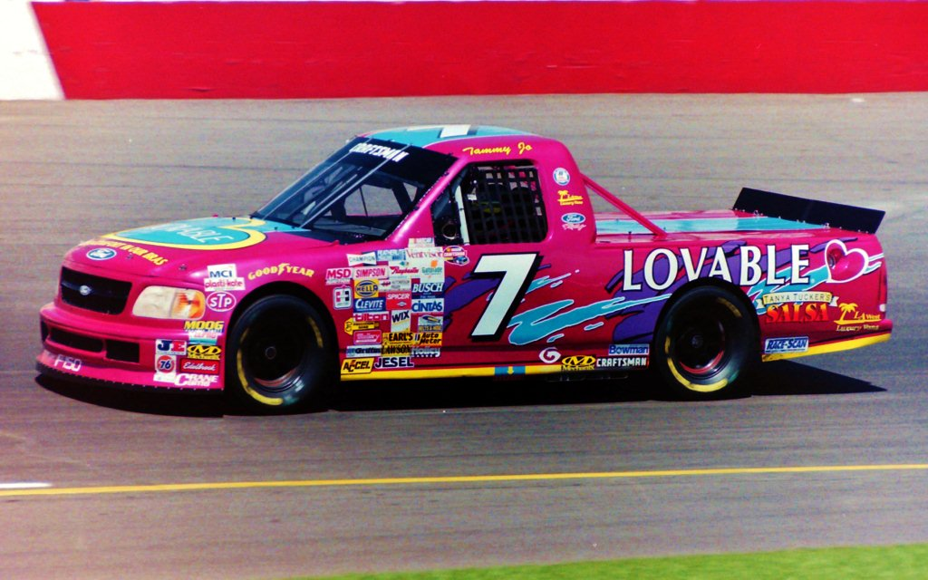 Tammy Jo Kirk drives the No. 7 truck at Phoenix International Raceway in 1997.